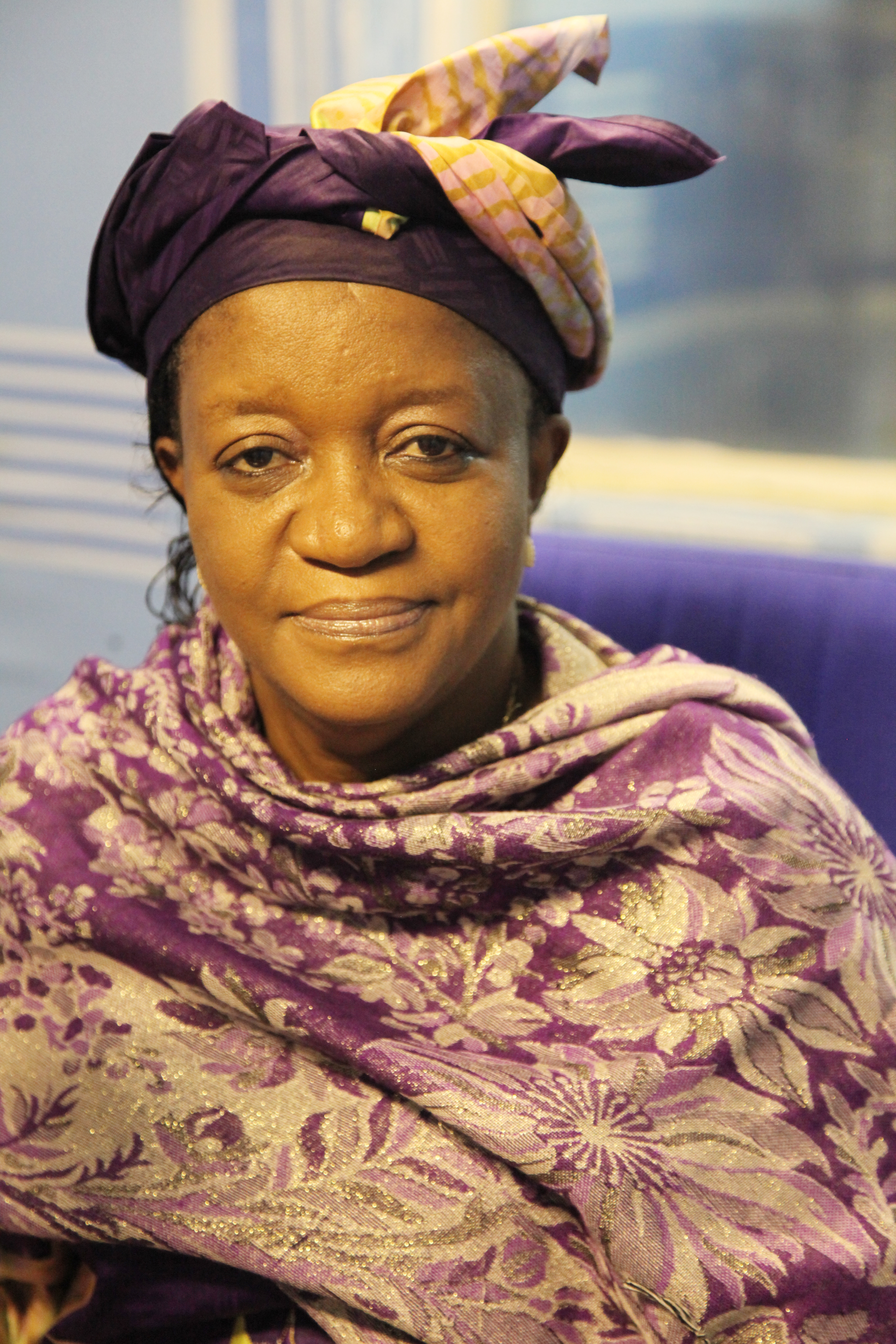 Zainab Bangura giving a radio interview in Kinshasa